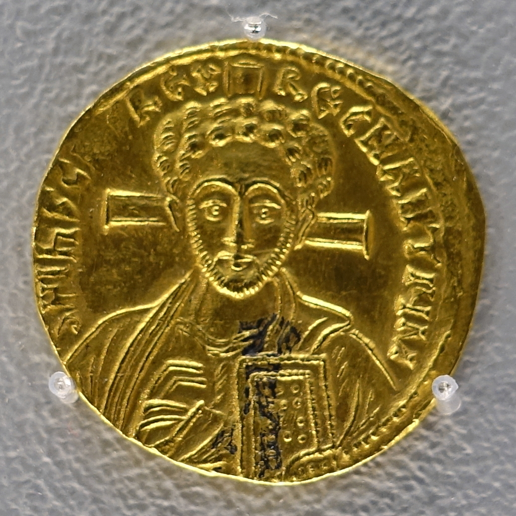 Exhibit in the Arthur M. Sackler Museum, Harvard University, Cambridge, Massachusetts, USA. This artwork is in the public domain because the artist died more than 70 years ago.